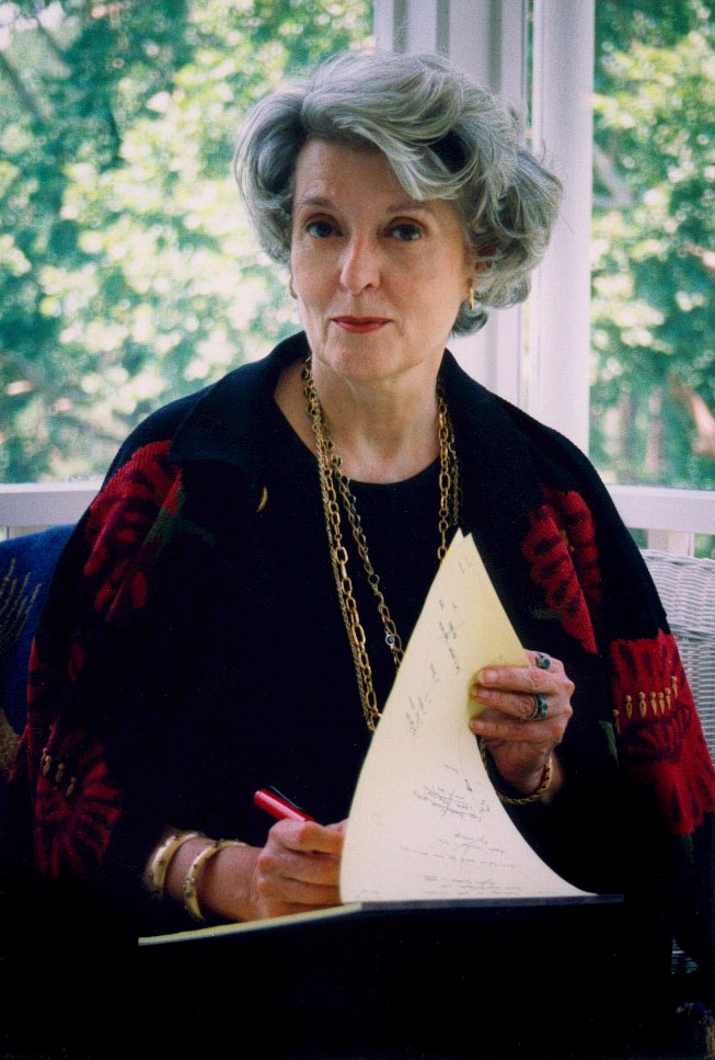 Photo of Alexandra Ripley, at her home, Lafayette Hill Tavern, Keswick, VA 1999, by Osmund Geier